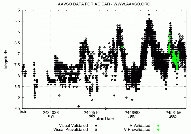 AAVSO light curve of luminous blue variable AG Car from 1 Jan 1940 to 23 Nov 2010. Up is brighter and down is fainter. Day numbers are Julian day. Different colors reflect different bandpasses.